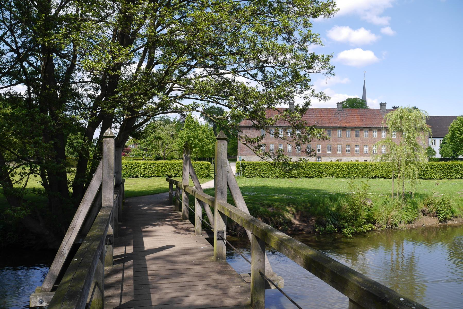 Monastery building with monastery garden and Hoendiksbach (creek)